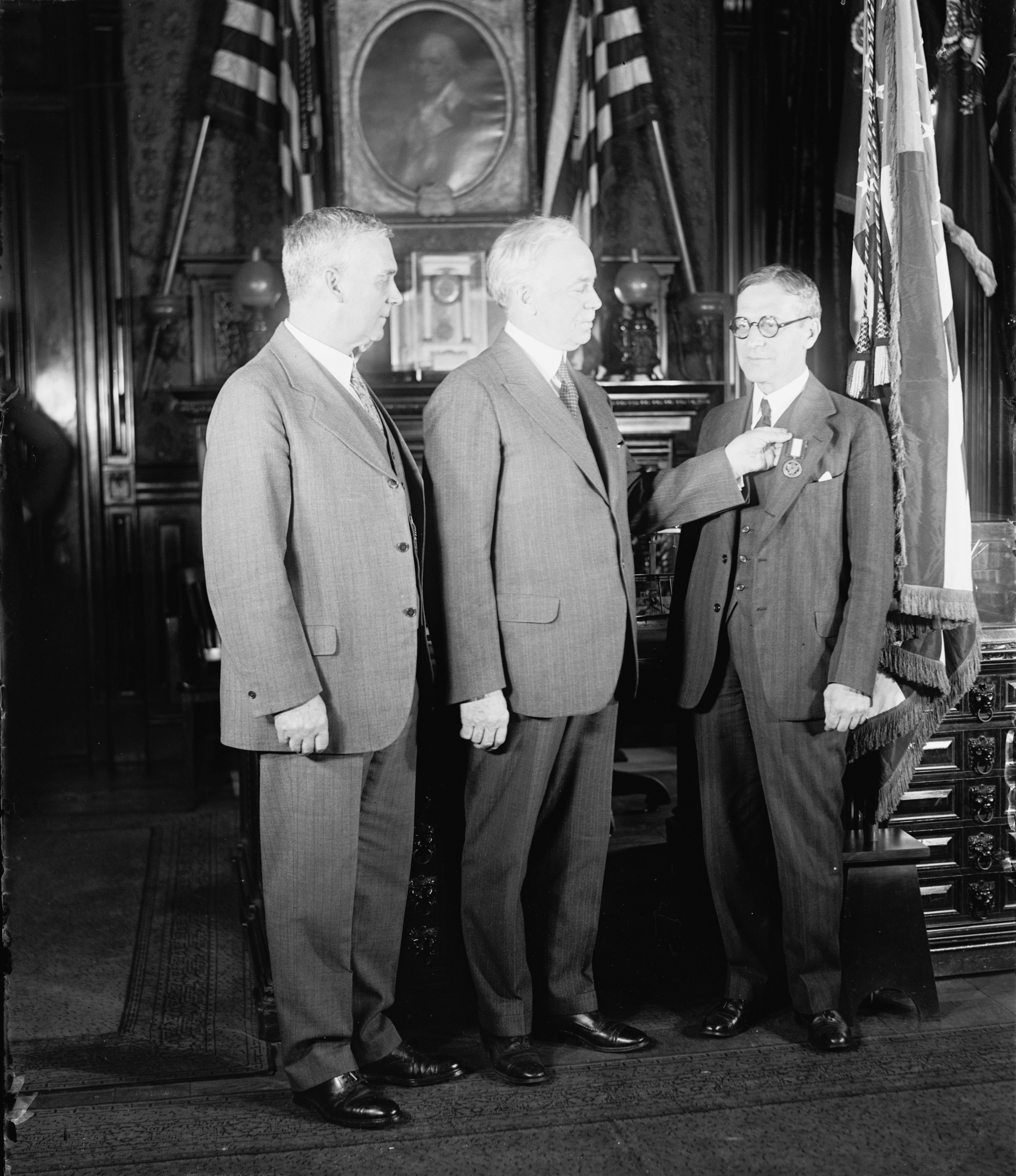 Newton D. Baker, McInns, D.S.M. Sumerall Good Baker, 3/13/29